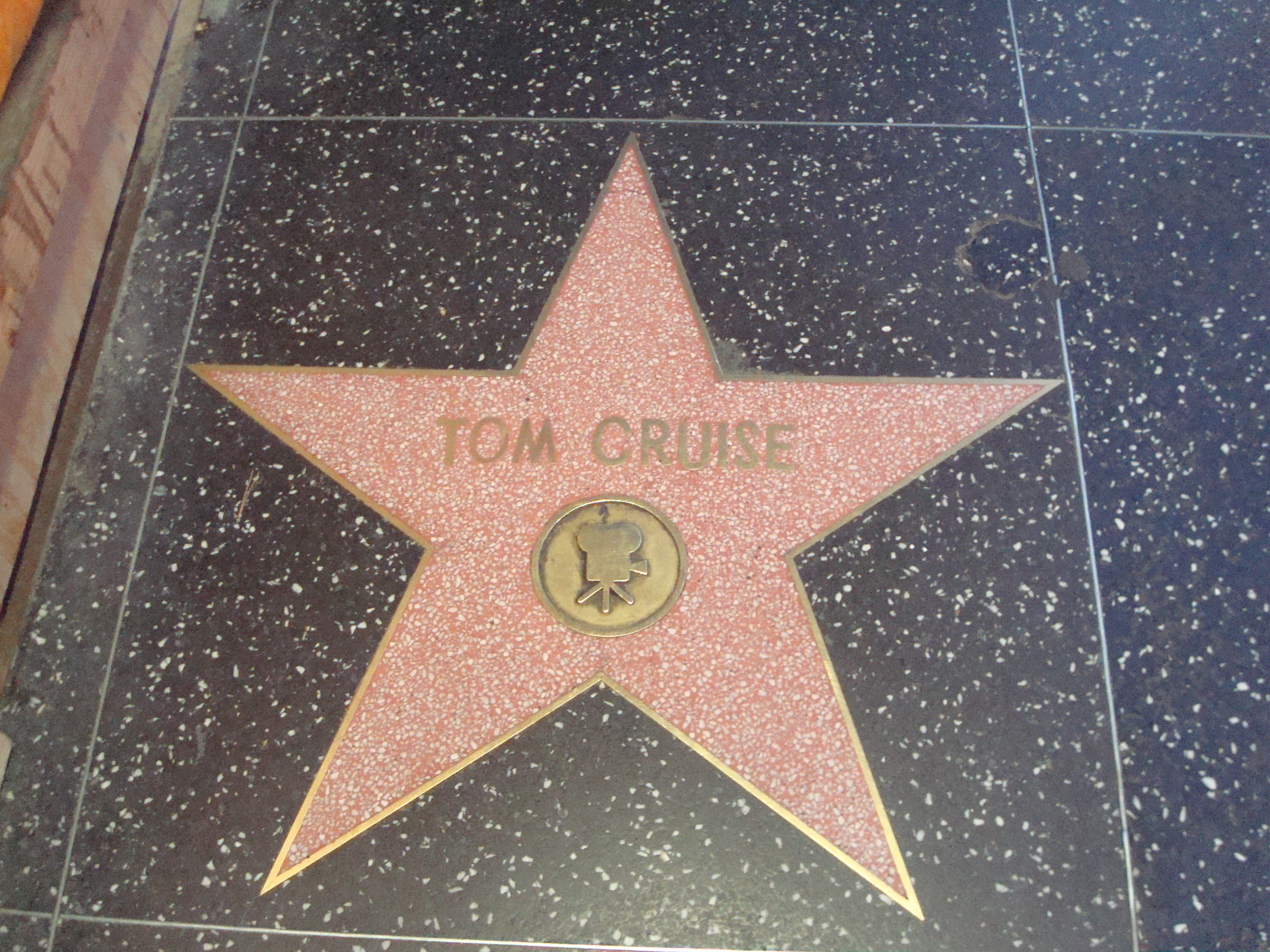 Tom Cruise's star on the Hollywood Walk of Fame in Hollywood, Los Angeles, California.